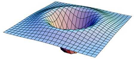 The 2-dimensional Marr wavelet